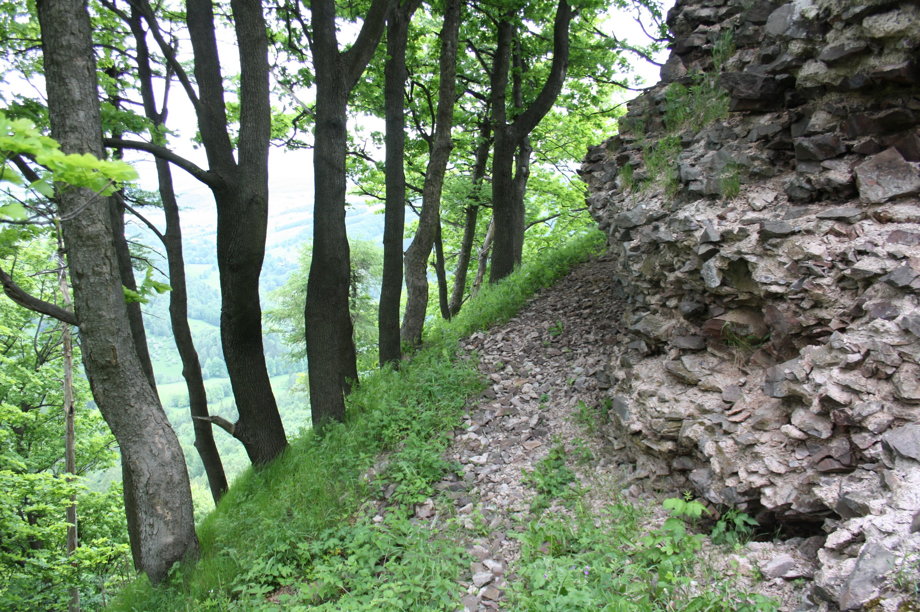 Ruins of Rogowiec Castle, Lower Silesian Voivodship, Poland.